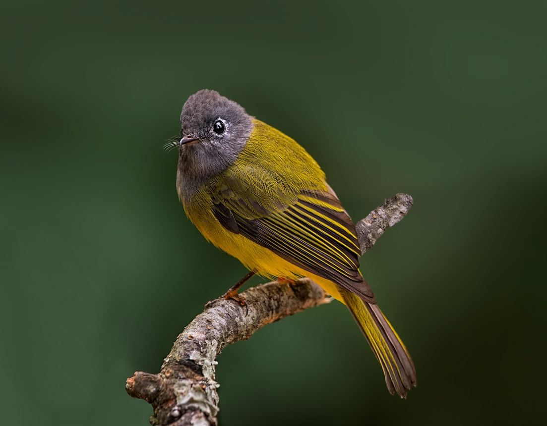 The Grey Headed Canary Flycatcher from Nilgiris, South India